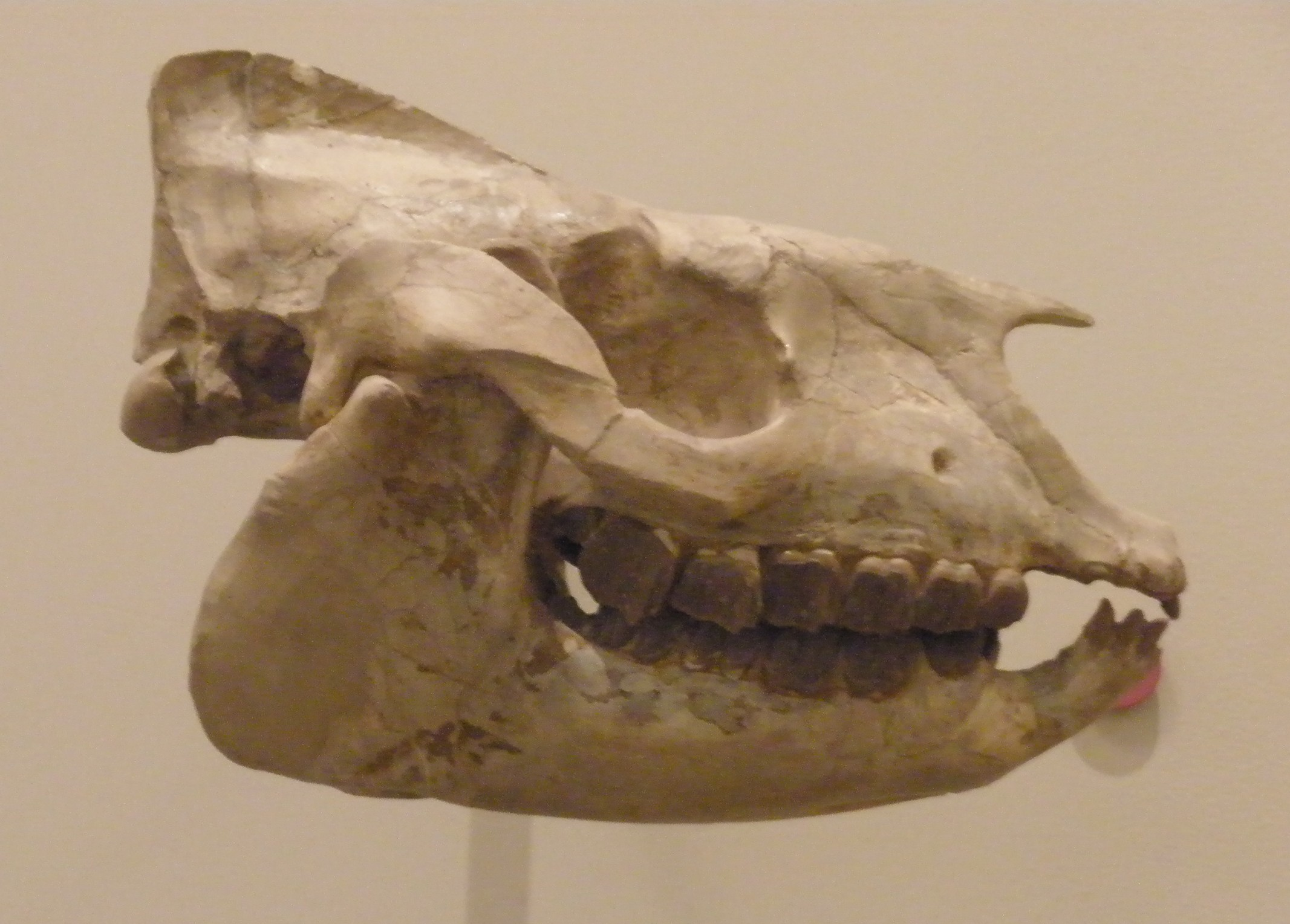 Skull of Hyracodon nebrascensis, a fossil rhino, in the "American Museum of Natural History", New York